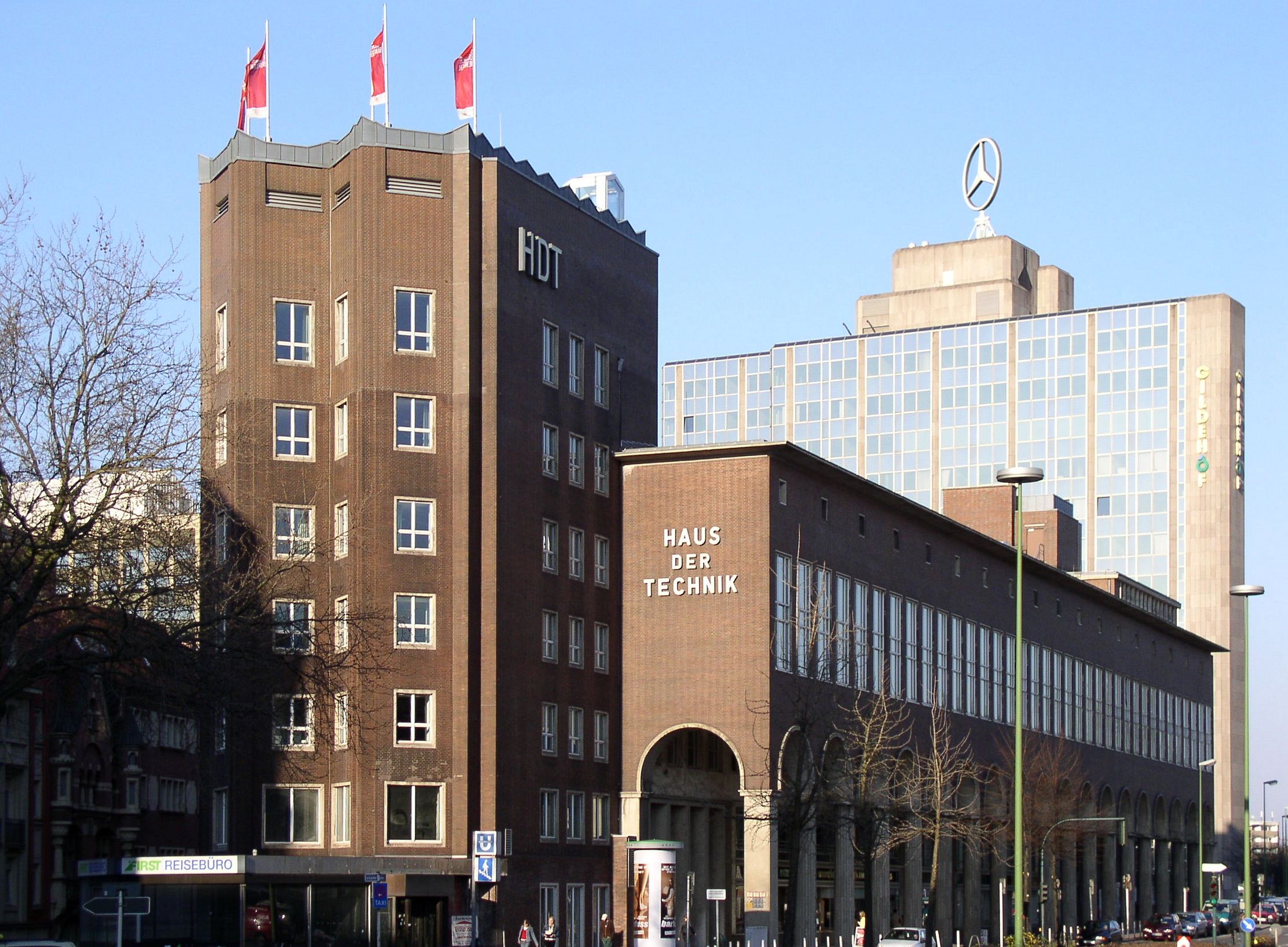 Description: Haus der Technik Source: photo taken by me, April 2005 Photographer: Baikonur